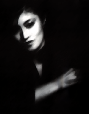 Etsuko Shihomi Portrait